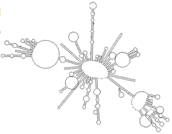 3' UTR of SMCO3